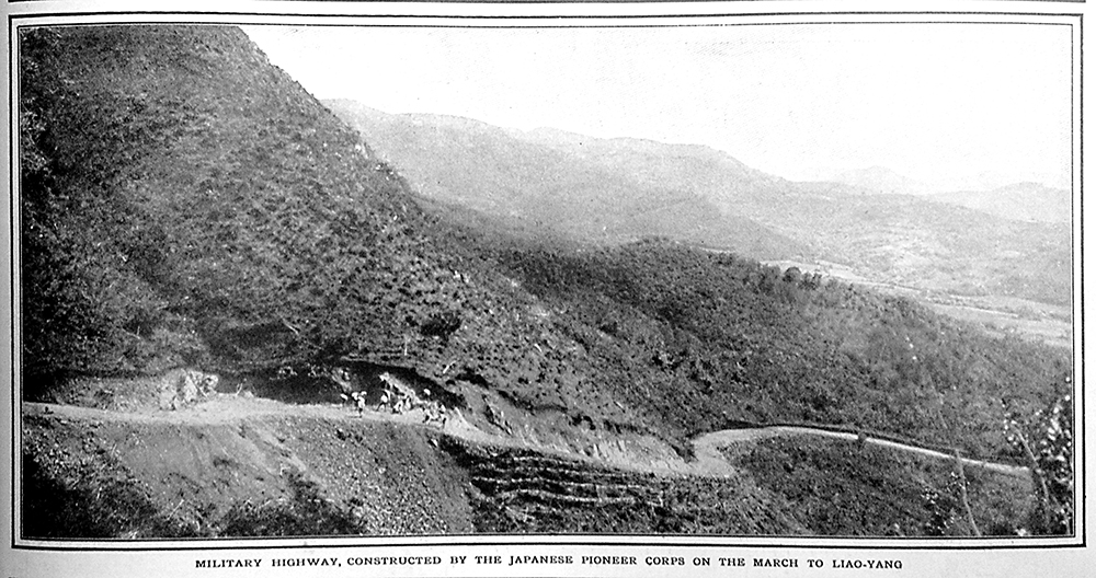 Military highway, constructed by the Japanese Pioneer Corps on the march to Liao-yang, 1904.